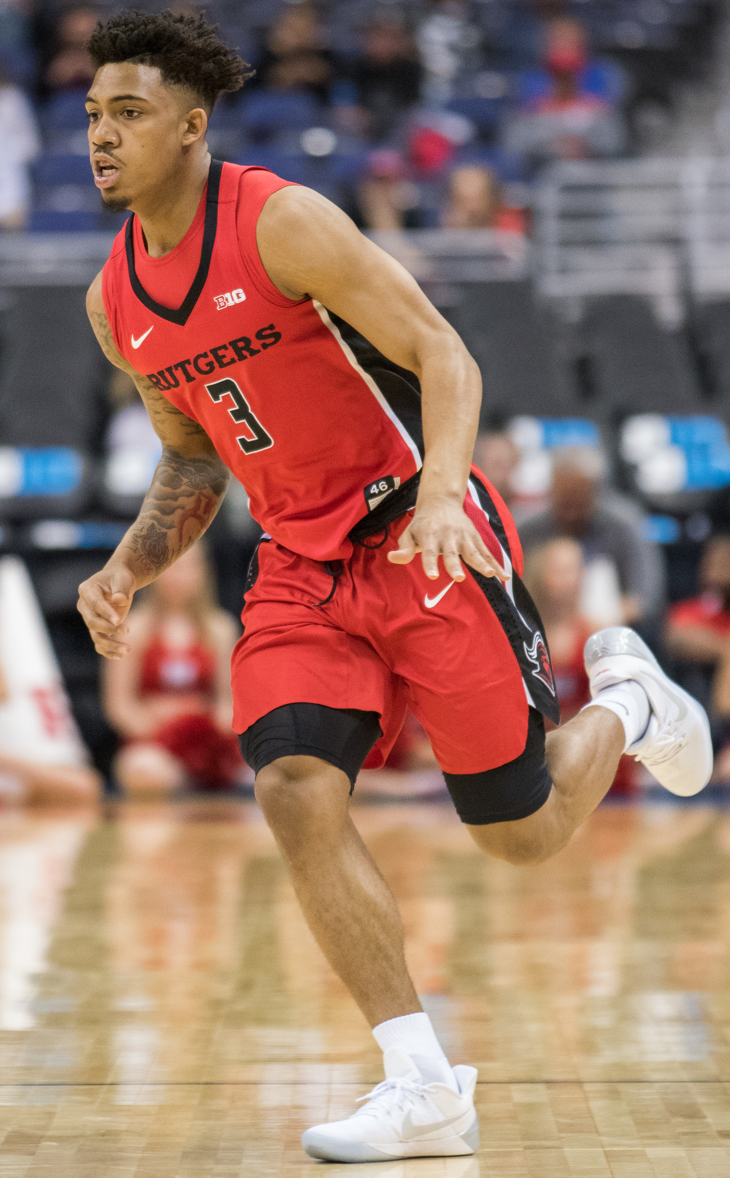 Corey Sanders of Rutgers